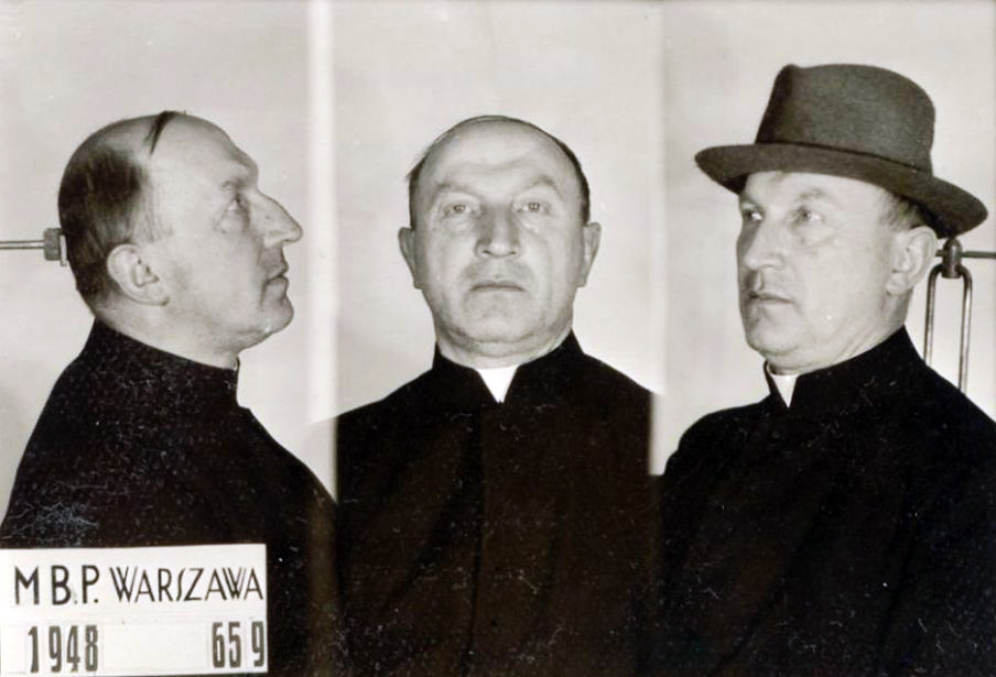 Zygmunt Kaczyński (1894-1953). Polish Catolic Priest and politician. Arrested by communist secret police, died in prison.